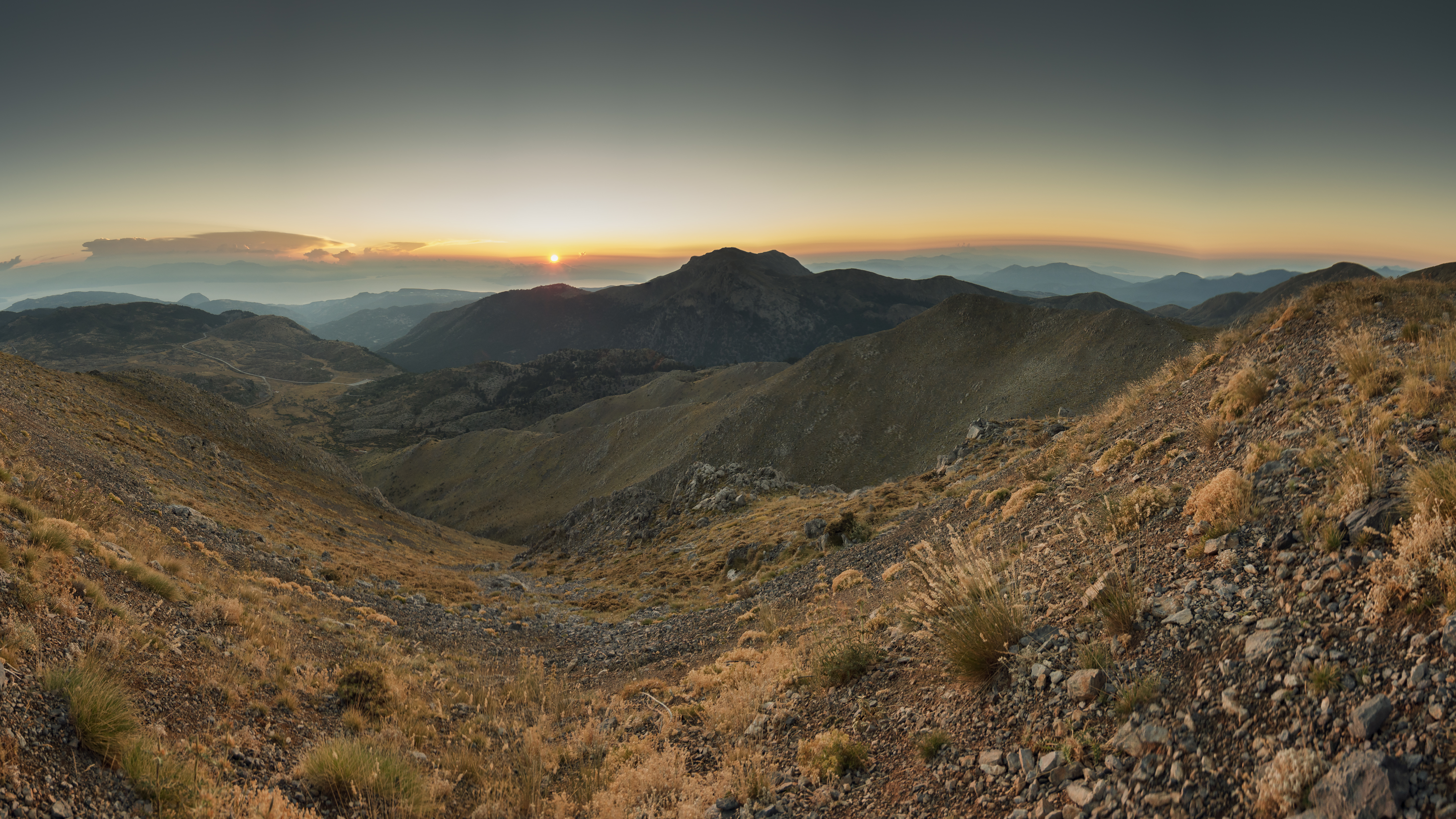 This is a photography of Natura 2000 protected area with ID GR2530001